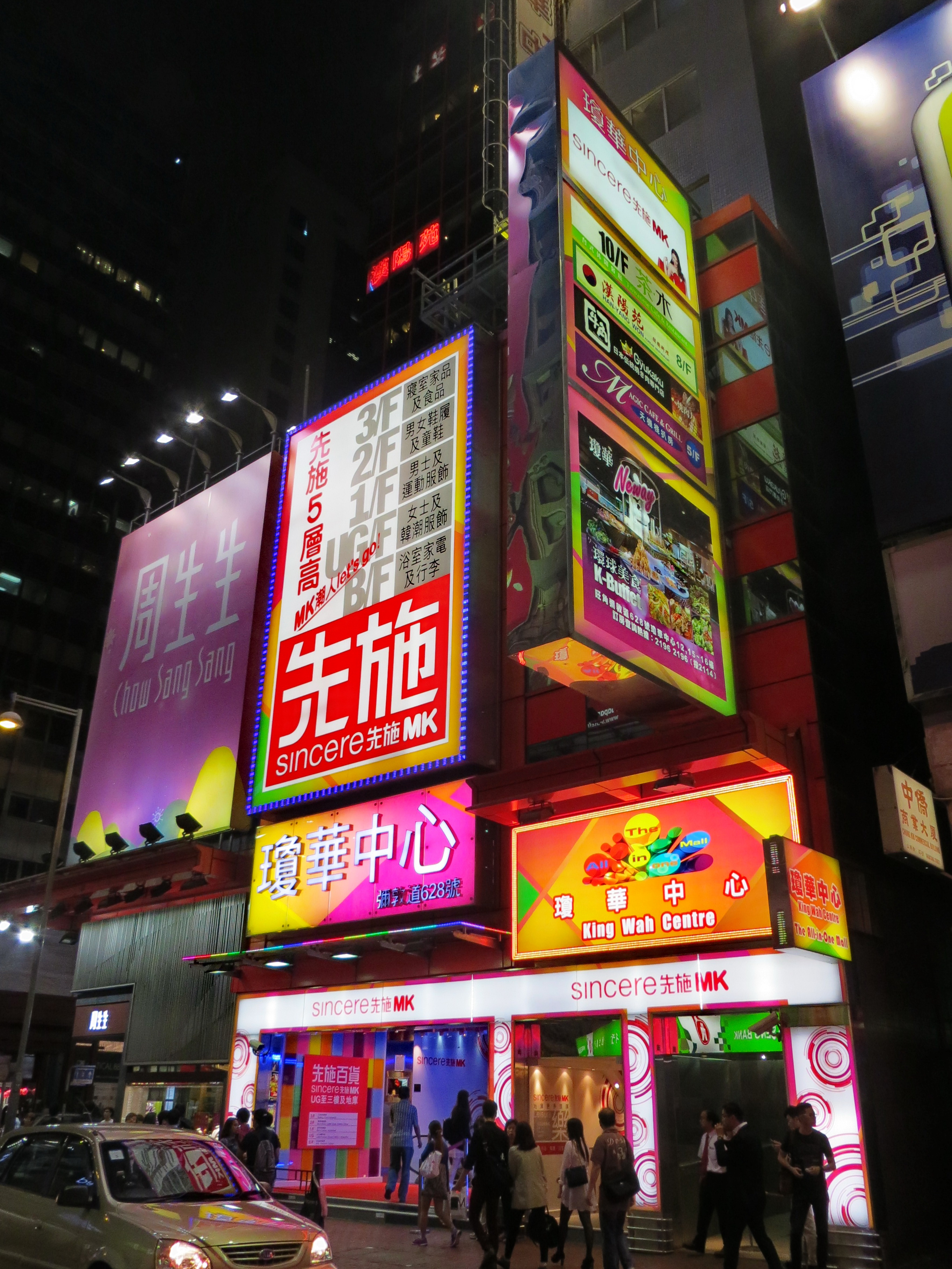 Sincere Department Store, King Wah Centre, Mong Kok, Kowloon, Hong Kong.